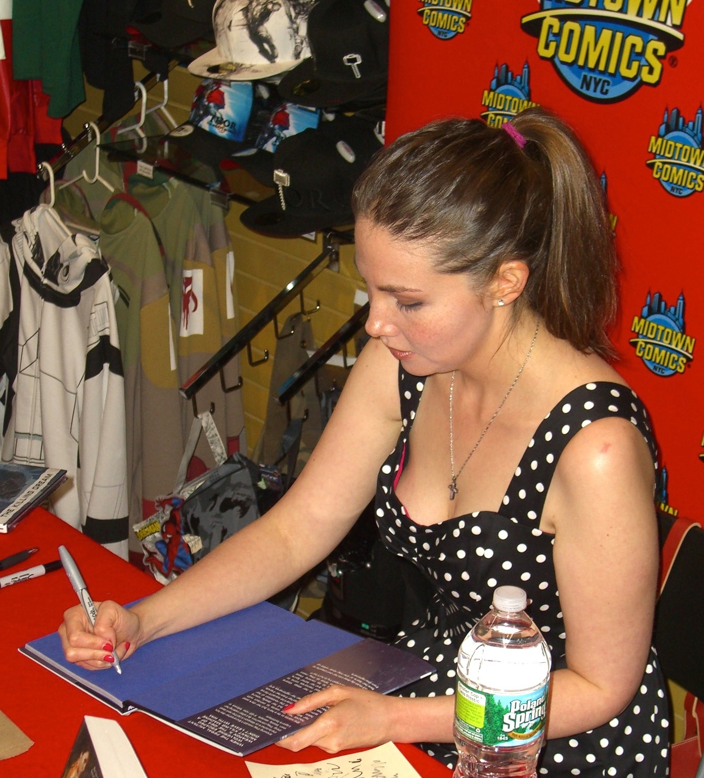 Fantasy novelist and comics writer Marjorie Liu at a signing at Midtown Comics Times Square in Manhattan, June 29, 2011. Photographed by Luigi Novi. This photo is not in the public domain. It may, however, be used, modified and published for any purpose, free of charge, only if the photographer is properly credited, either by linking the photograph to this page, or with an easily visible credit to the photographer placed near the photo in each instance in which it is used. (See licensing information below.) Publication of this photo without this proper attribution constitutes copyright infringement. If you have any questions, you can contact me on my Wikipedia Talk Page.